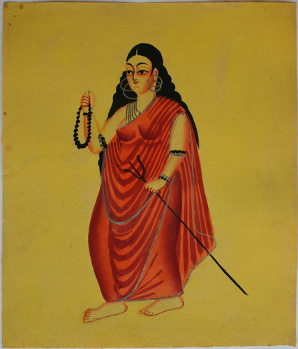 Bhairavi, Kalighat painting